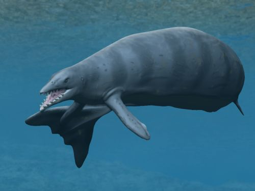 Basilosaurus